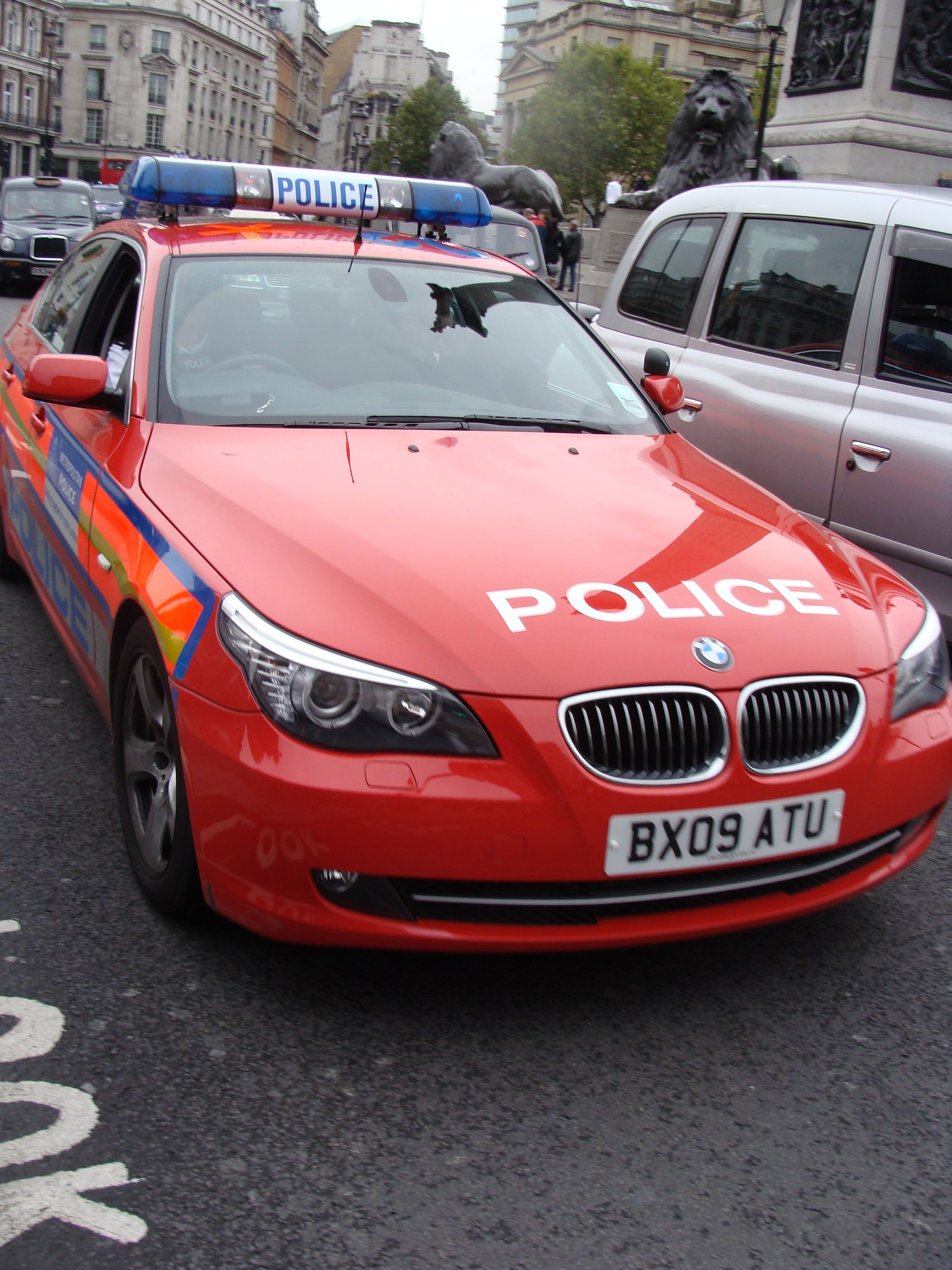 Metropolitan Police Service, London 2009